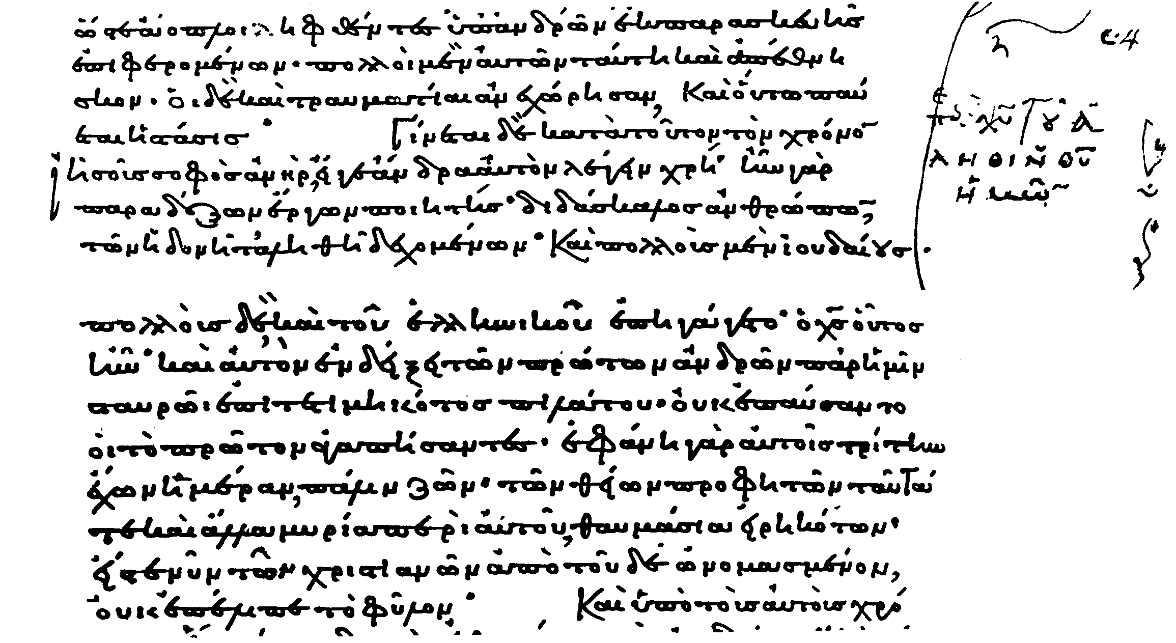 Reproduction showing the so-called Testimonium Flavianum in the oldest preserved manuscript of the latter part of Flavius Josephus’ ”Antiquities of the Jews”; Codex Ambrosianus (Mediolanensis) F. 128 from the 11th century.